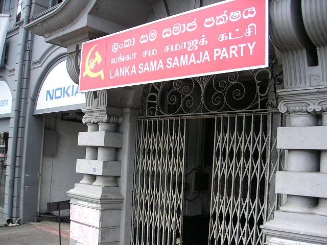 Lanka Sama Samaja Party office. Colombo. Photo: Soman